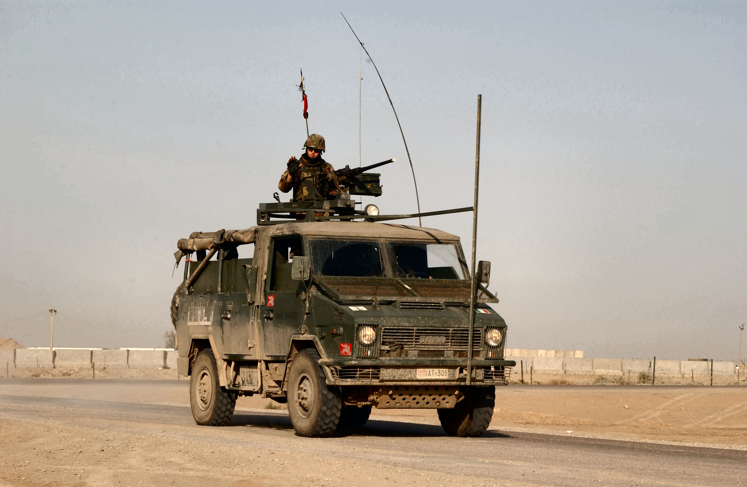 TALLIL AIR BASE, Iraq (April 29, 2005) – Iveco 40.10 from the San Marco Regiment (the marine force of Italian Navy) depart Tallil Air Base, Iraq for an early morning convoy escort duty, April 28. The Italian Army is an essential coalition partner in Operation Iraqi Freedom.